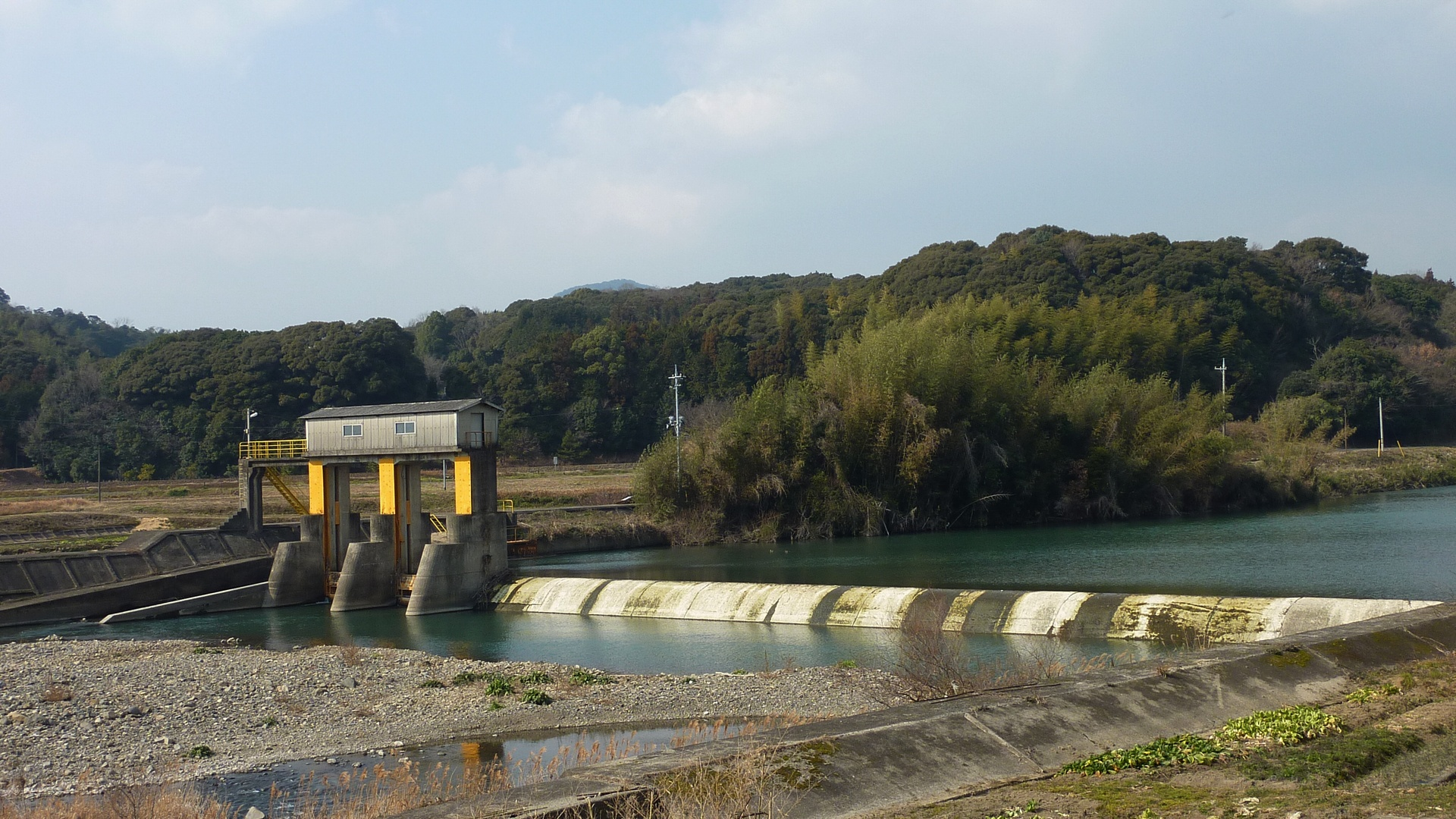 Netaro Weir (Asa River - Sanyo-Onoda City, Yamaguchi, Japan)